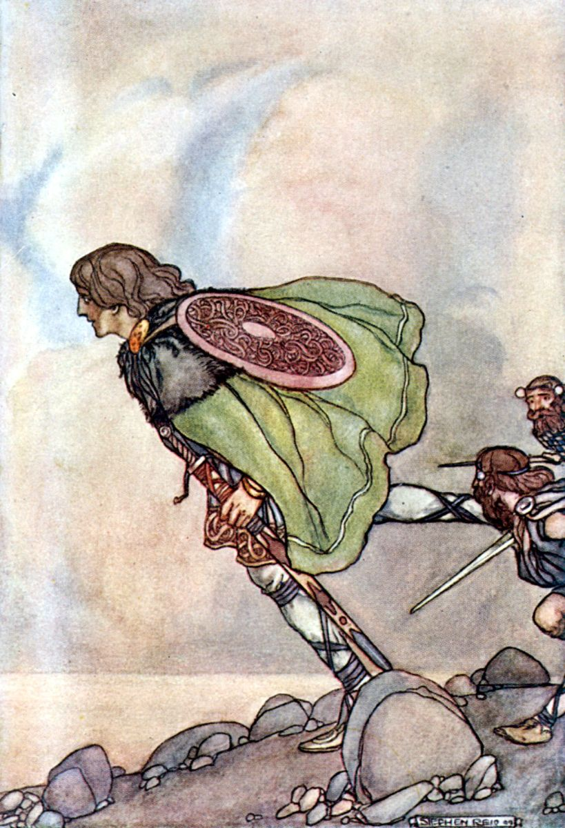 "They ran him by hill and plain" The High Deeds of Finn and other Bardic Romances of Ancient Ireland, by T. W. Rolleston, et al, Illustrated by Stephen Reid